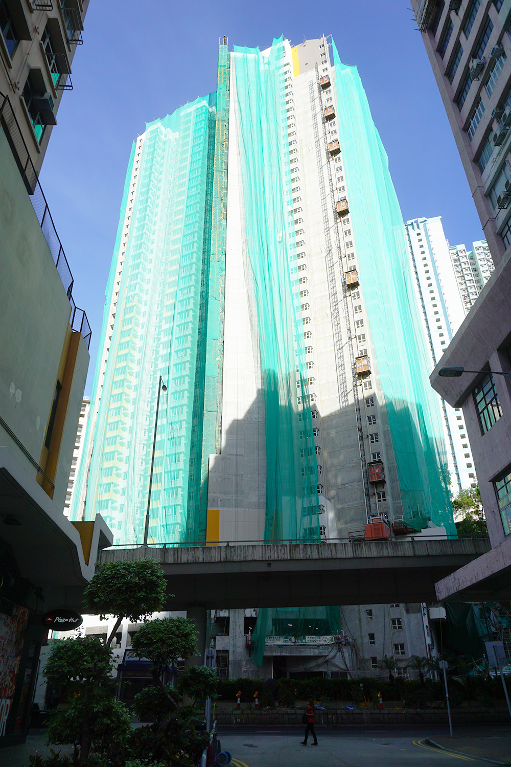 Sheung Man Court in Tai Wo Hau, Hong Kong.